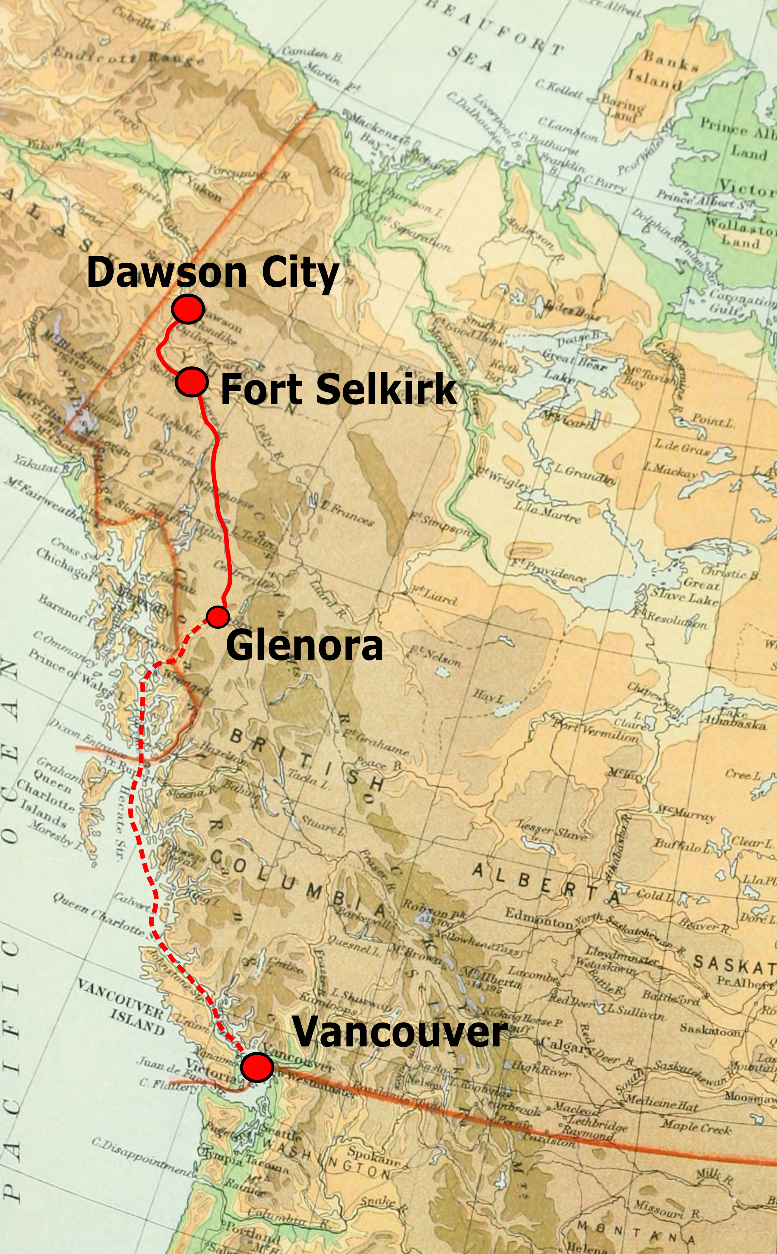 Map of Yukon Field Force deployment; graphics by Hchc2009